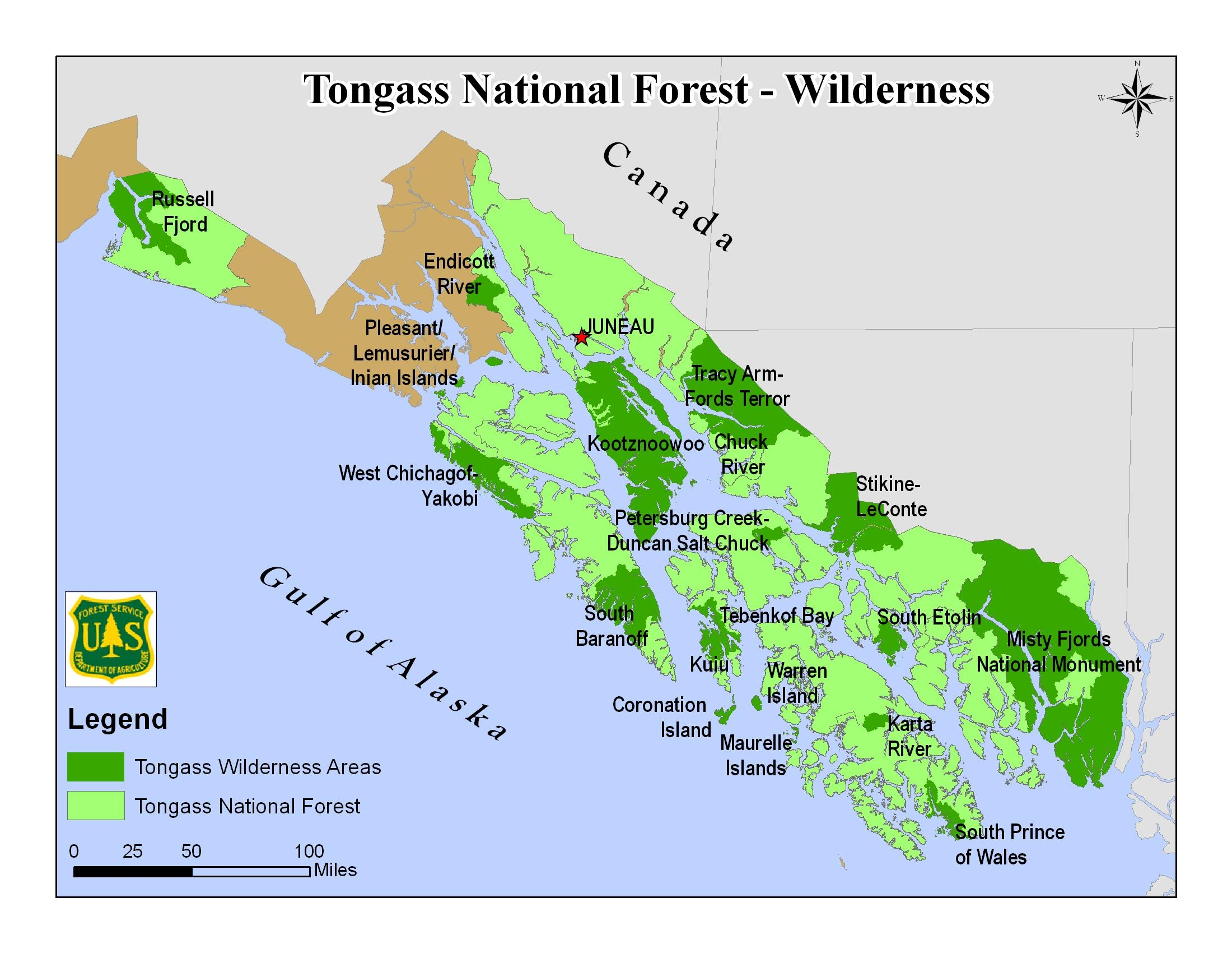 Map of the Tongass National Forest in southeast Alaska, USA, showing designated Wilderness Areas